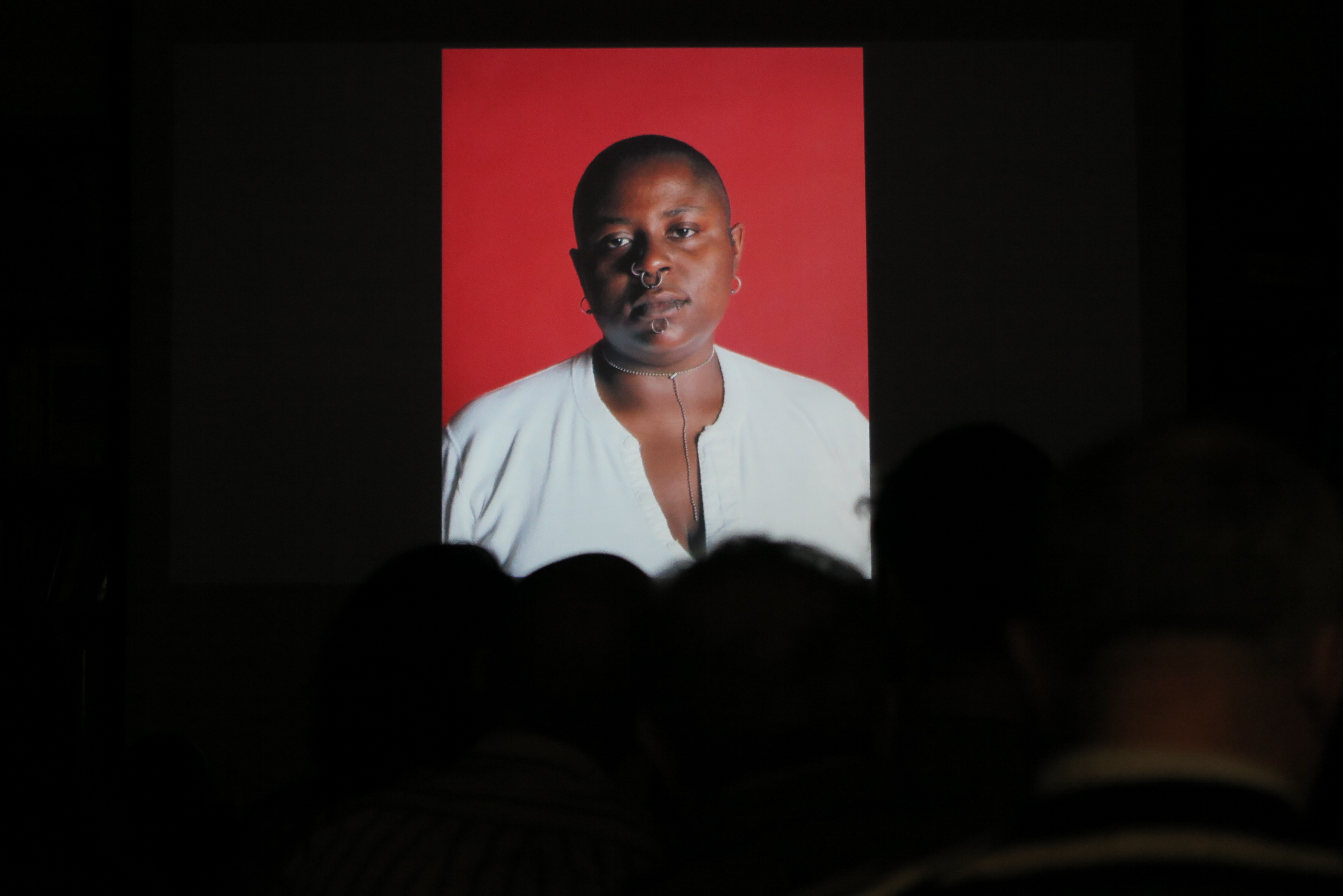 Catherine Opie y Philip Taaffe